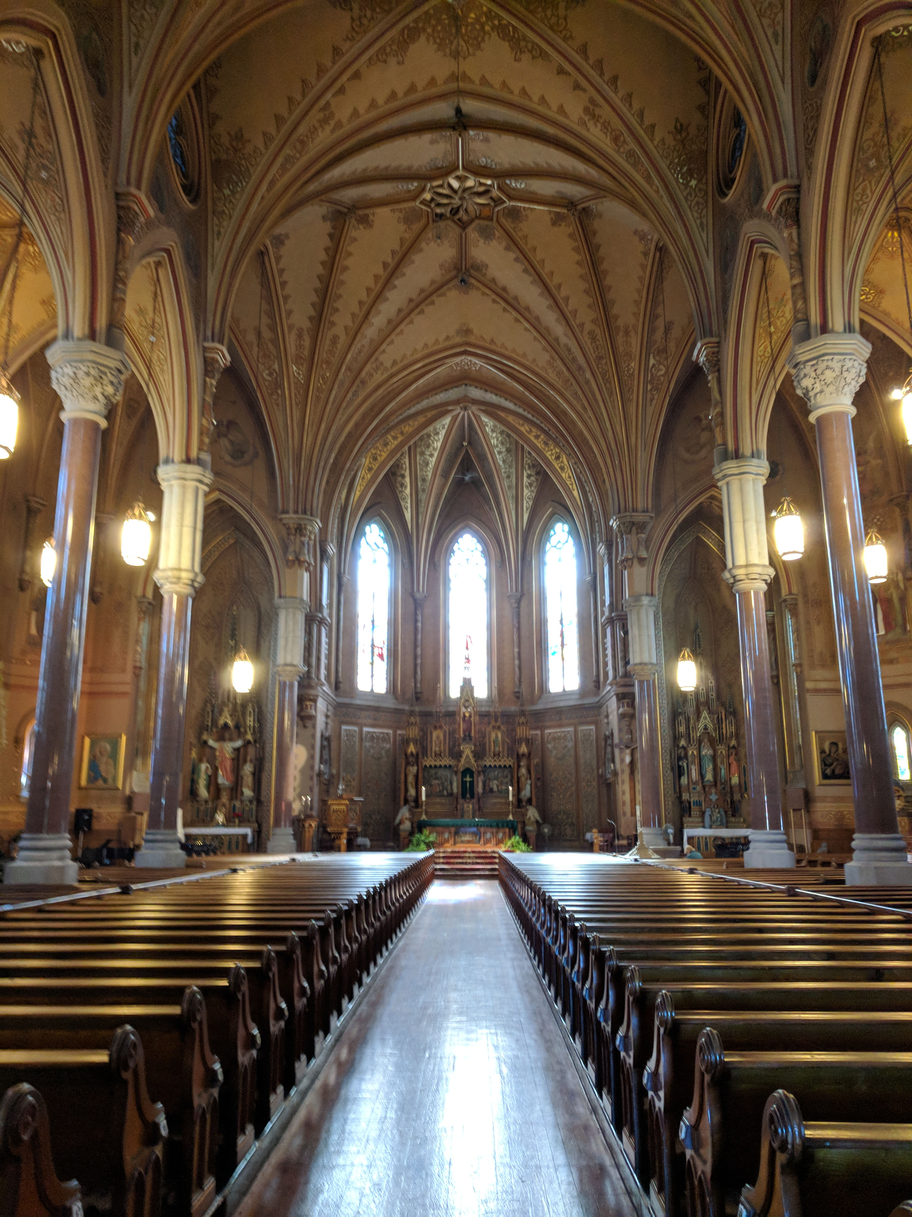 Nave of Saint Michael's Church (Rochester, New York) looking toward the Sanctuary